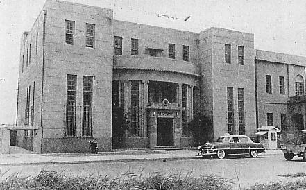 Bank of Okinawa Head Office circa 1955